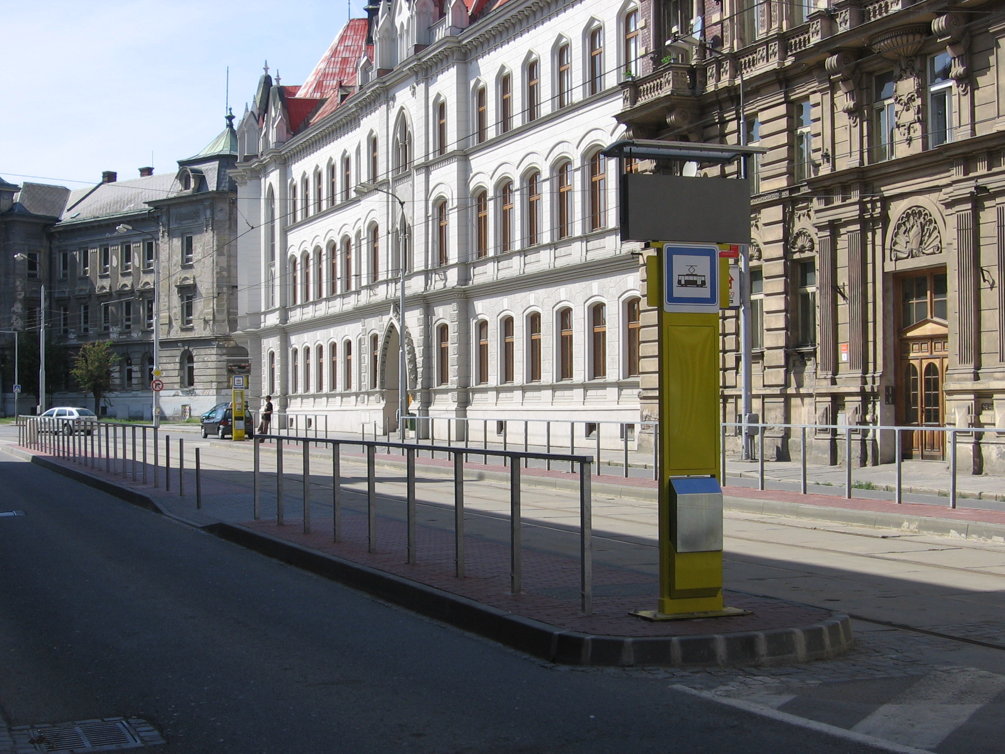 Tram Stop "Palackého" in Olomouc (Czech Republic)